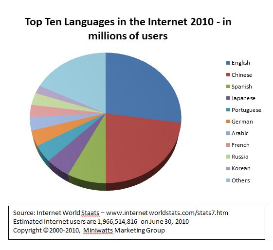 Source: Internet World Staats – Estimated Internet users are 1,966,514,816 on June 30, 2010 Copyright ©2000-2010, Miniwatts Marketing Group